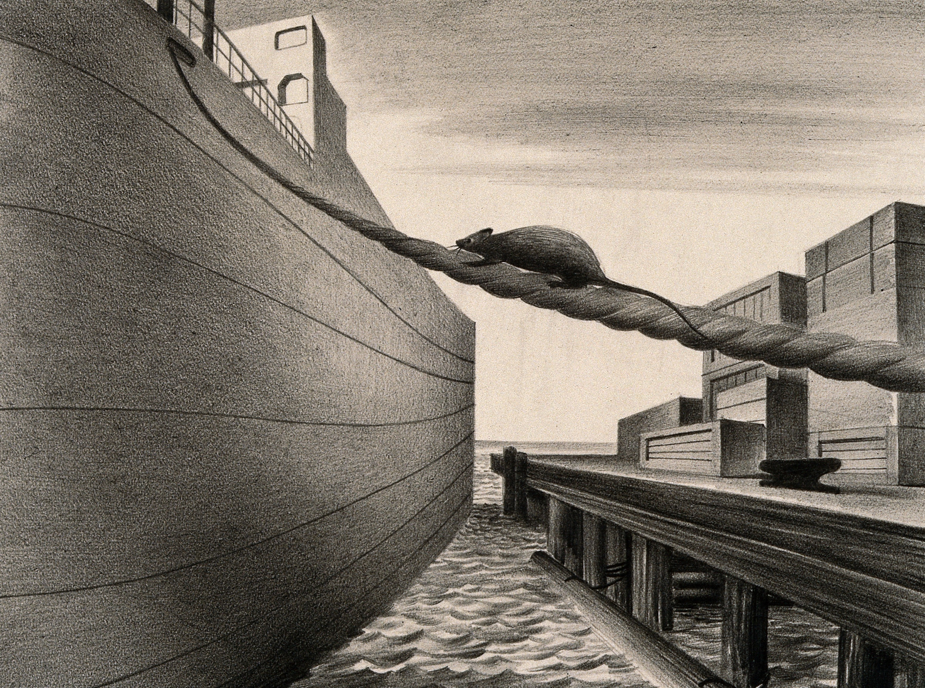 A rat stowing away on a ship, carrying the plague further afield. Drawing by A.L. Tarter, 194-. Iconographic Collections Keywords: Albert Lloyd Tarter